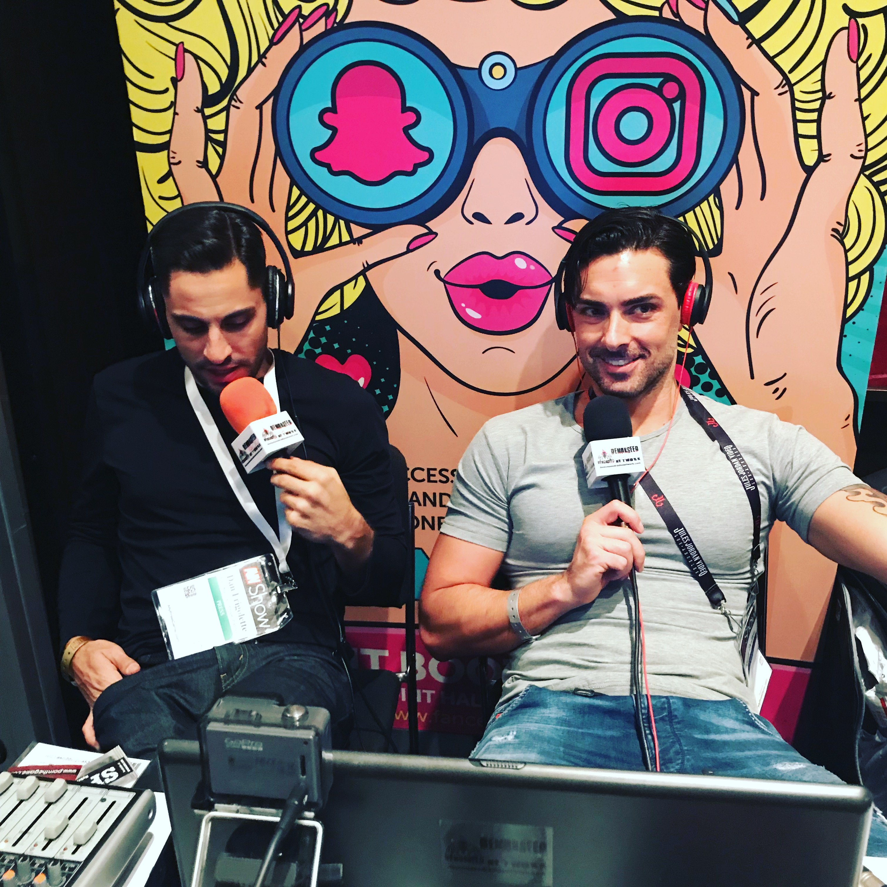 Interview with podcast